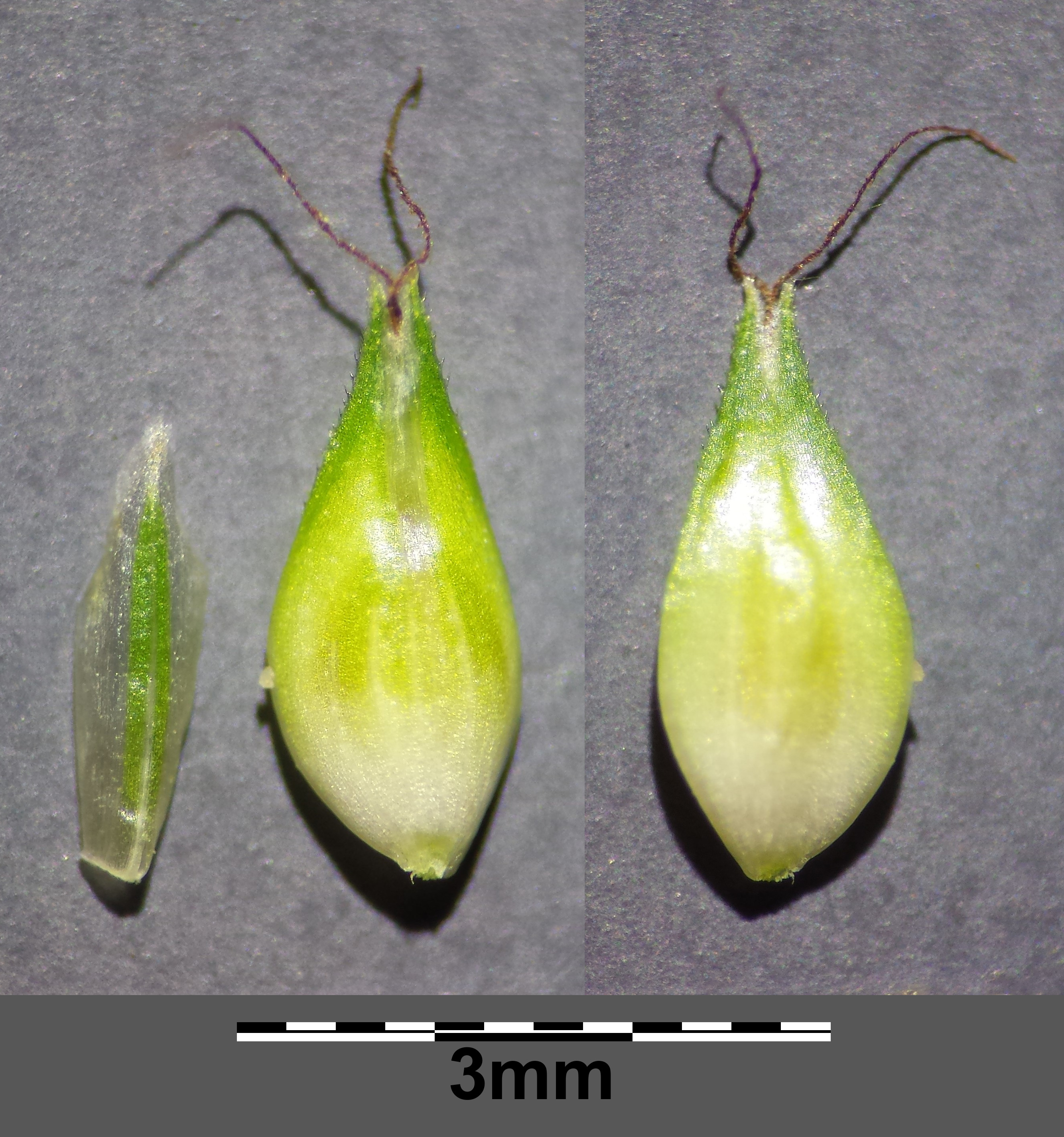 Glume and utricle Taxonym: Carex remota ss Fischer et al. EfÖLS 2008 ISBN 978-3-85474-187-9 Location: next to Korneuburg, district Korneuburg, Lower Austria - ca. 170 m a.s.l. Habitat: riparian forest